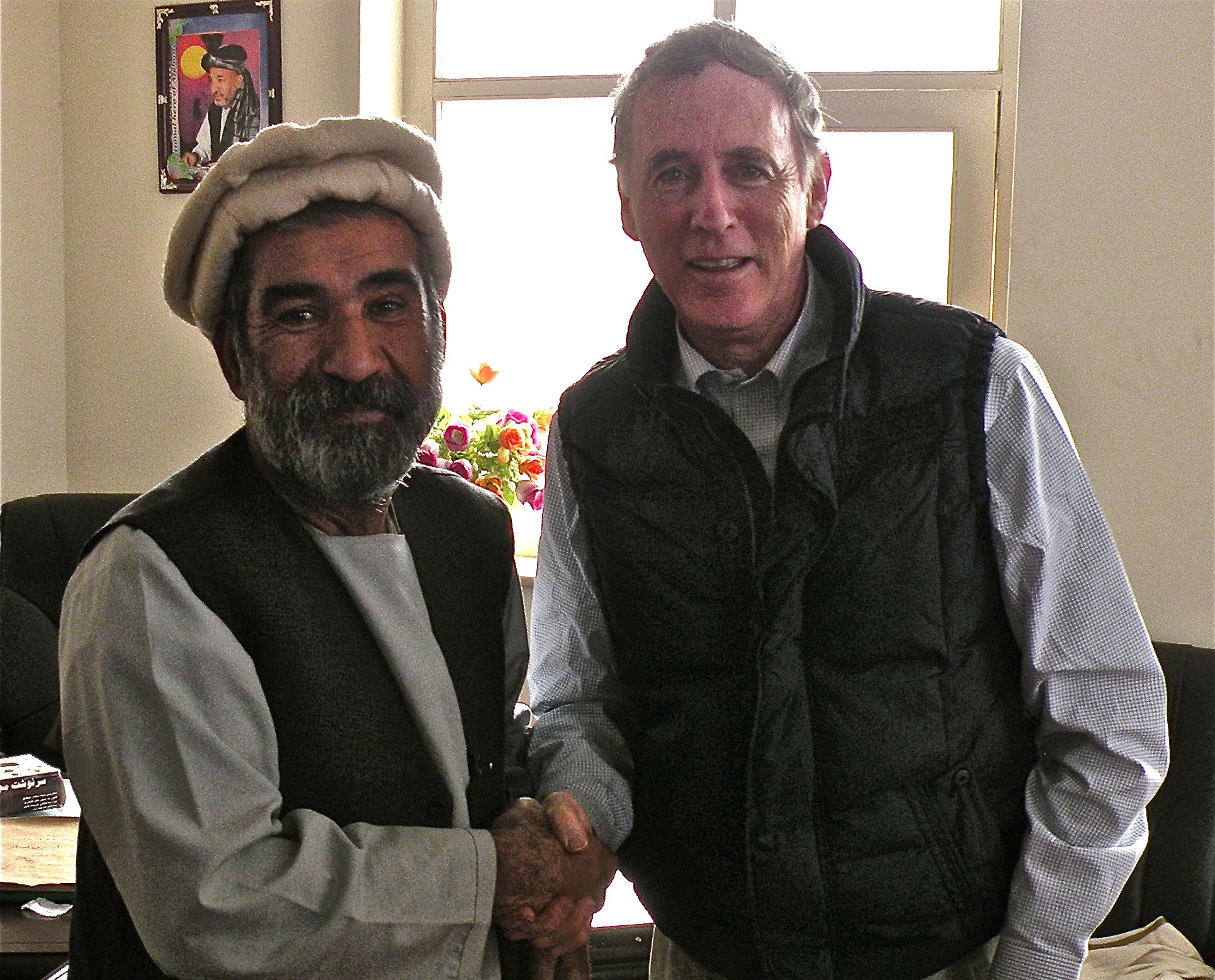 Rep. Stearns with Afghan official